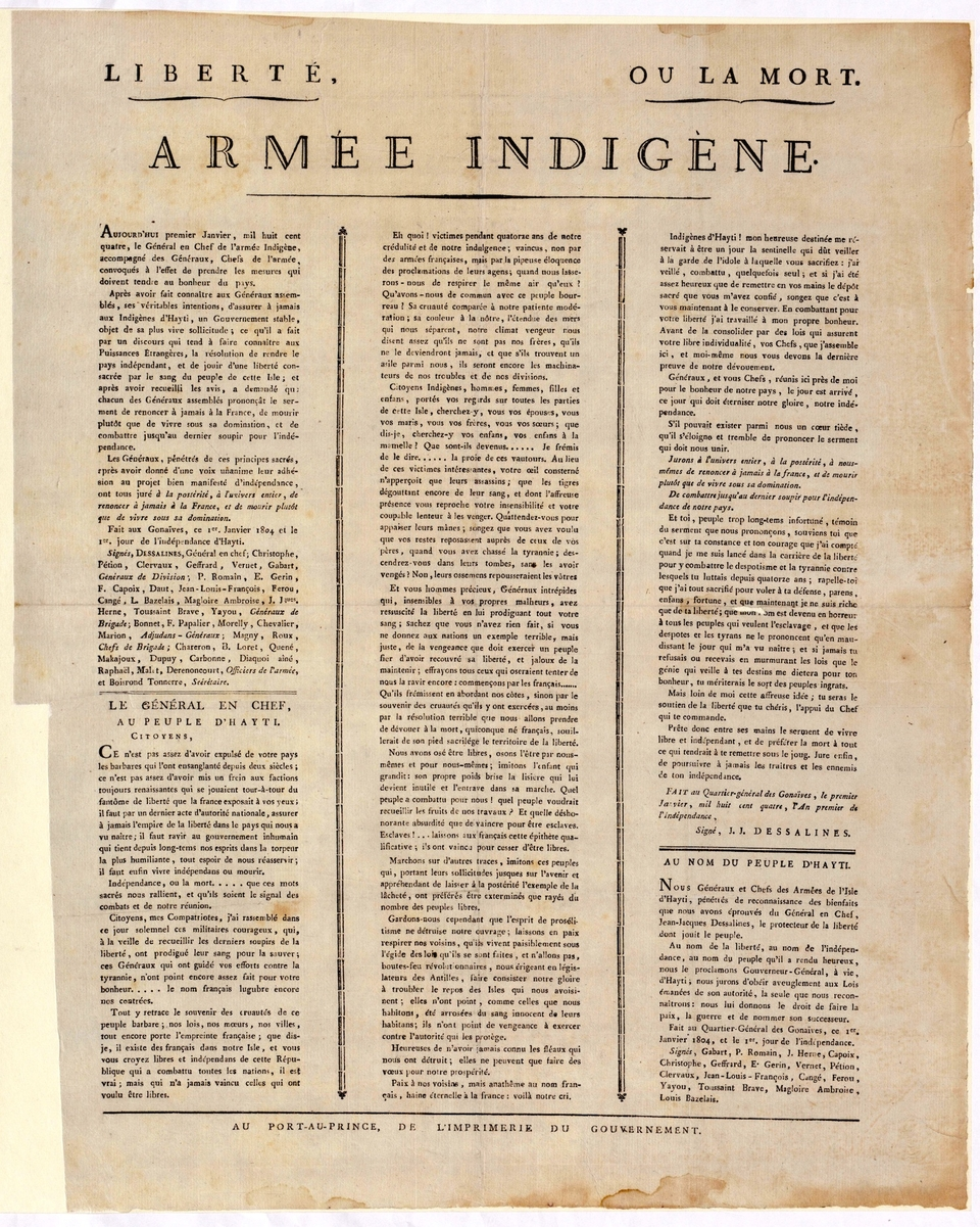 Deklarasyon Endepandans Ayiti. Haitian Declaration of Independence poster. Document MFQ 1/184. National Archives, U.K.